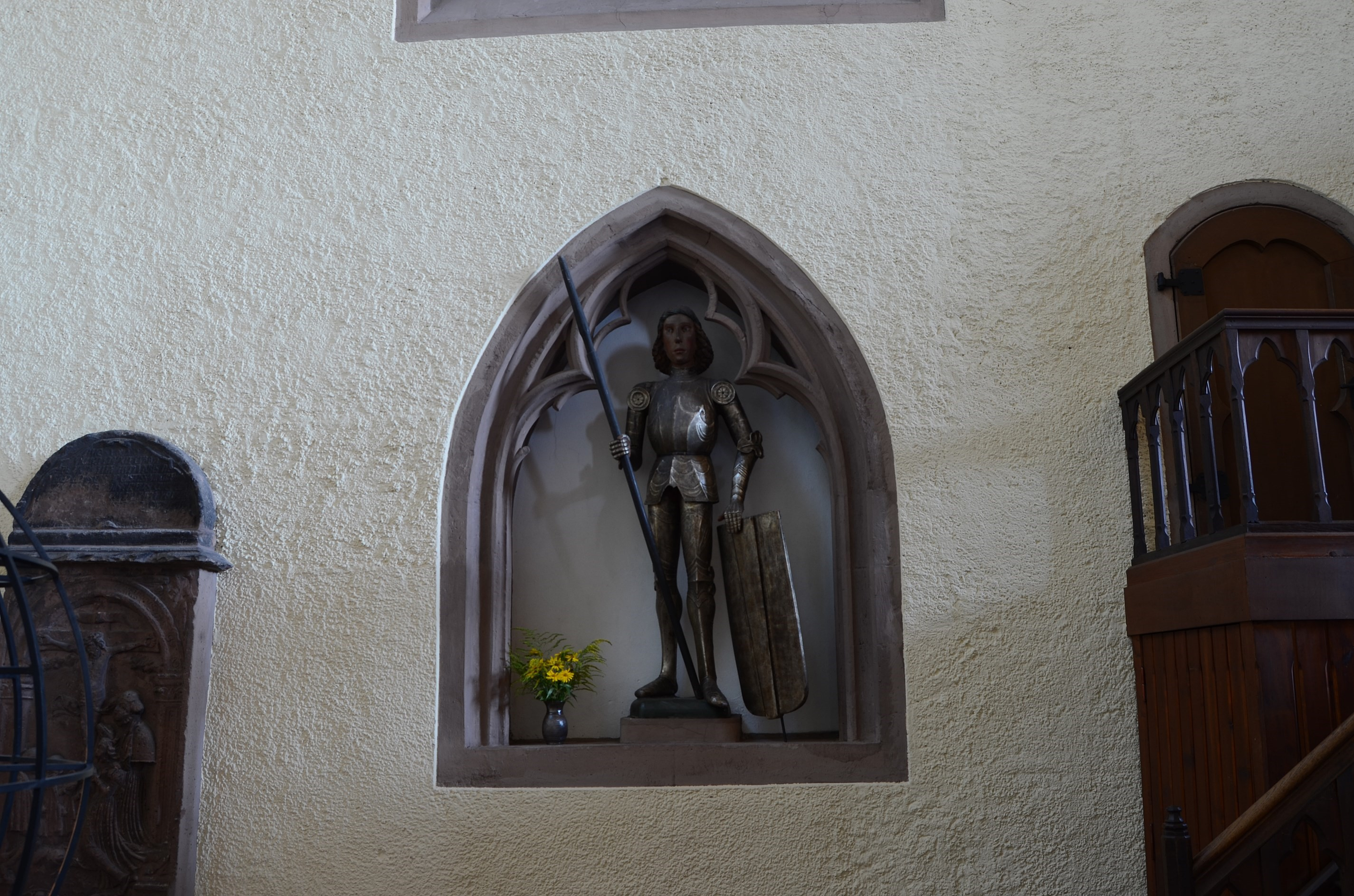 Einbeck (Lower Saxony, Germany) – Lutheran Saint Alexander Church – wooden statue of the patron saint This is a photograph of an architectural monument.It is on the list of cultural monuments of Einbeck This photograph was taken with a Nikon D7000